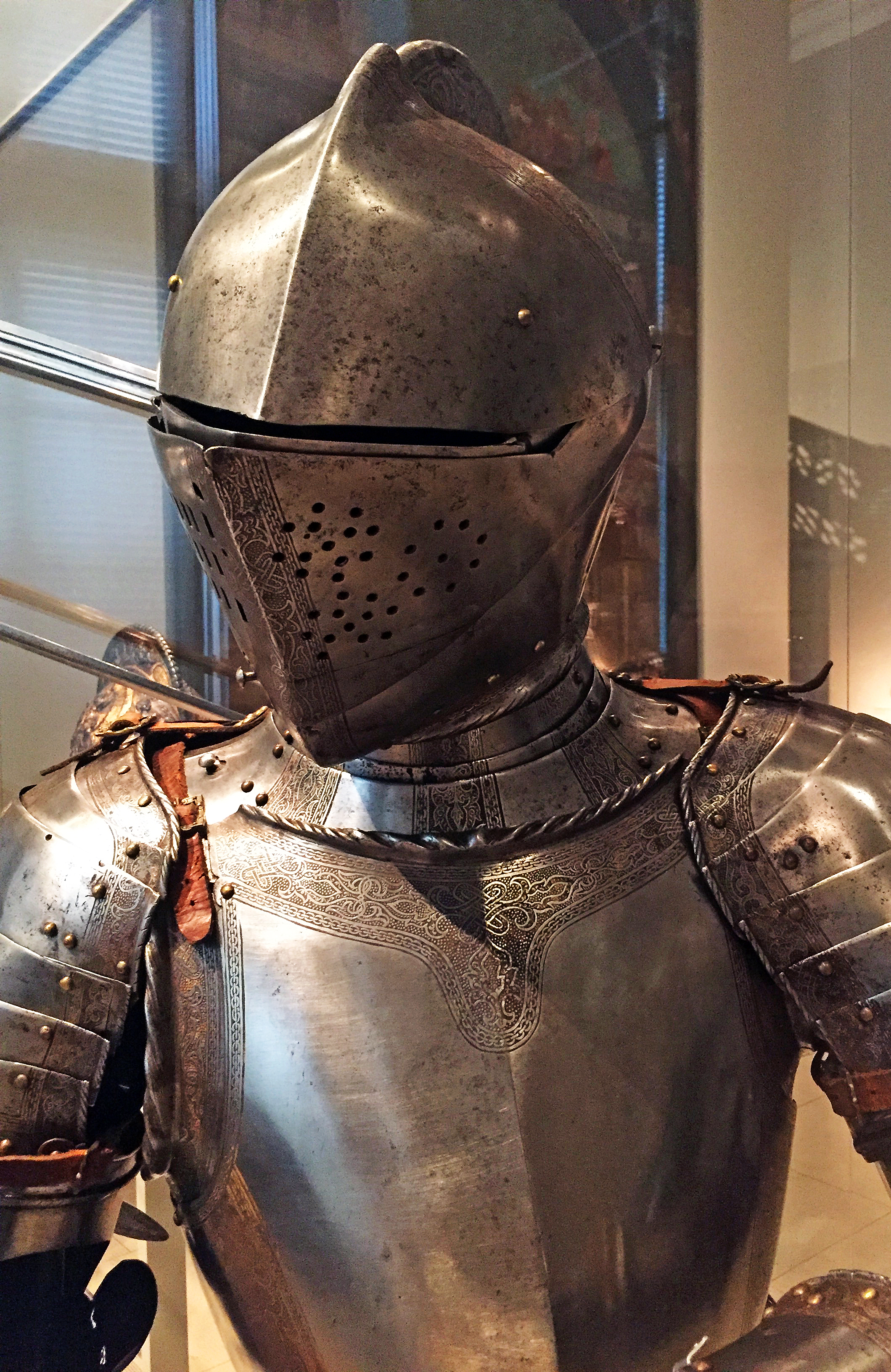 A finely decorated and fashionable suit of lightweight battle armor. Bavaria, 1570. An example of the the decorative metalwork on display at the Victoria & Albert Museum, London.